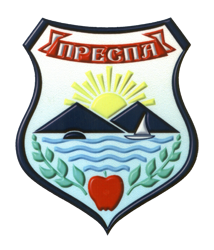 Coat of arms of the Resen municipality, the Republic of Macedonia From: with some editing Author: B. Jankuloski